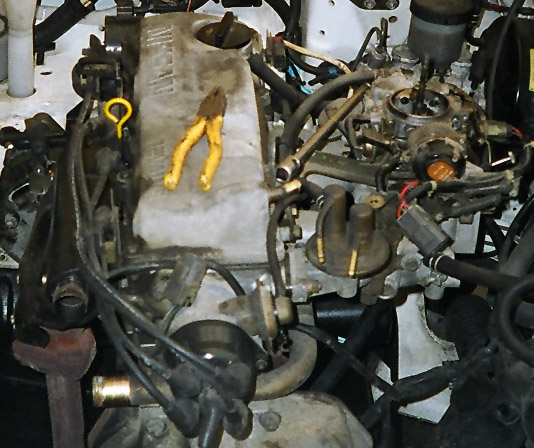 Took photo myself, December 2003, Waikanae, New Zealand, photo shows Nissan GA14S (filter housing removed).